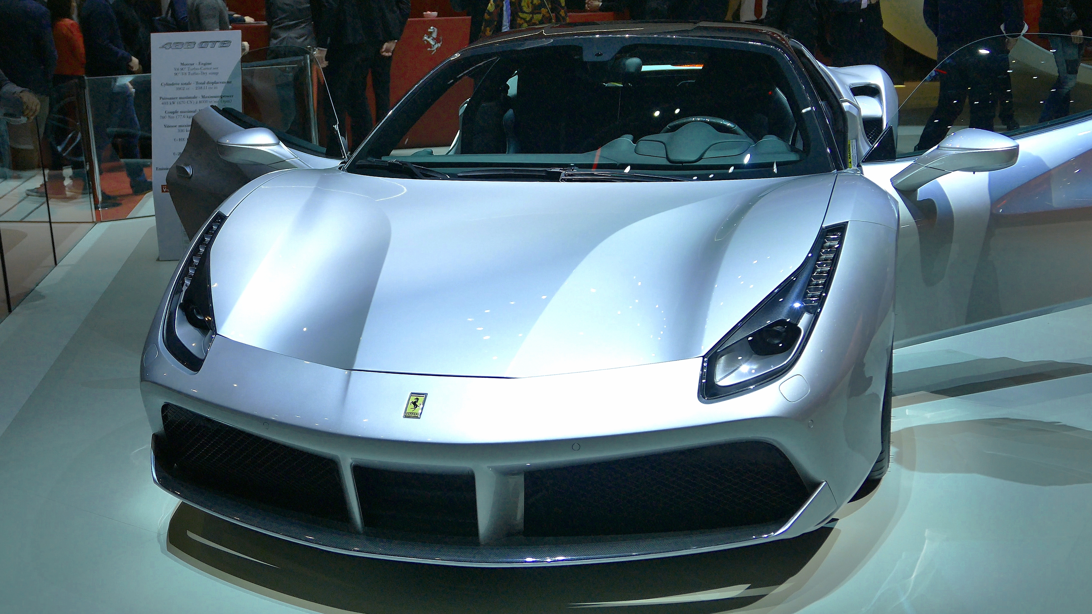 A Ferrari 488 GTB